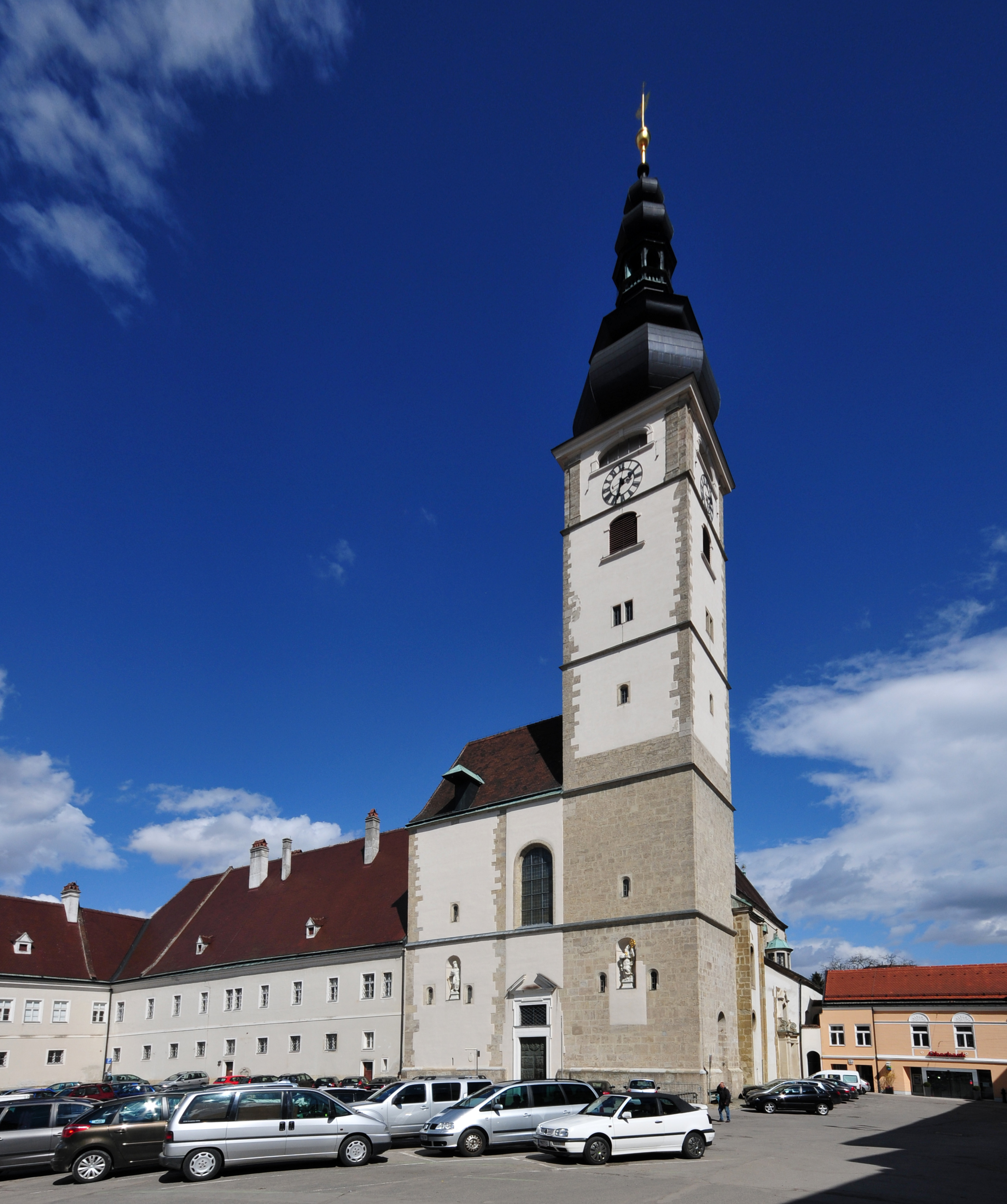 St. Pölten, Austria Fotowanderung St. Pölten 13. April 2013 in St. Pölten, Niederösterreich 50mm • Allgemeines • Bahnhof • Domplatz • Fahrräder • Landhausviertel • Rathausplatz This file is used in a Wikiversity project or course. Please don't change it before you inform the author.